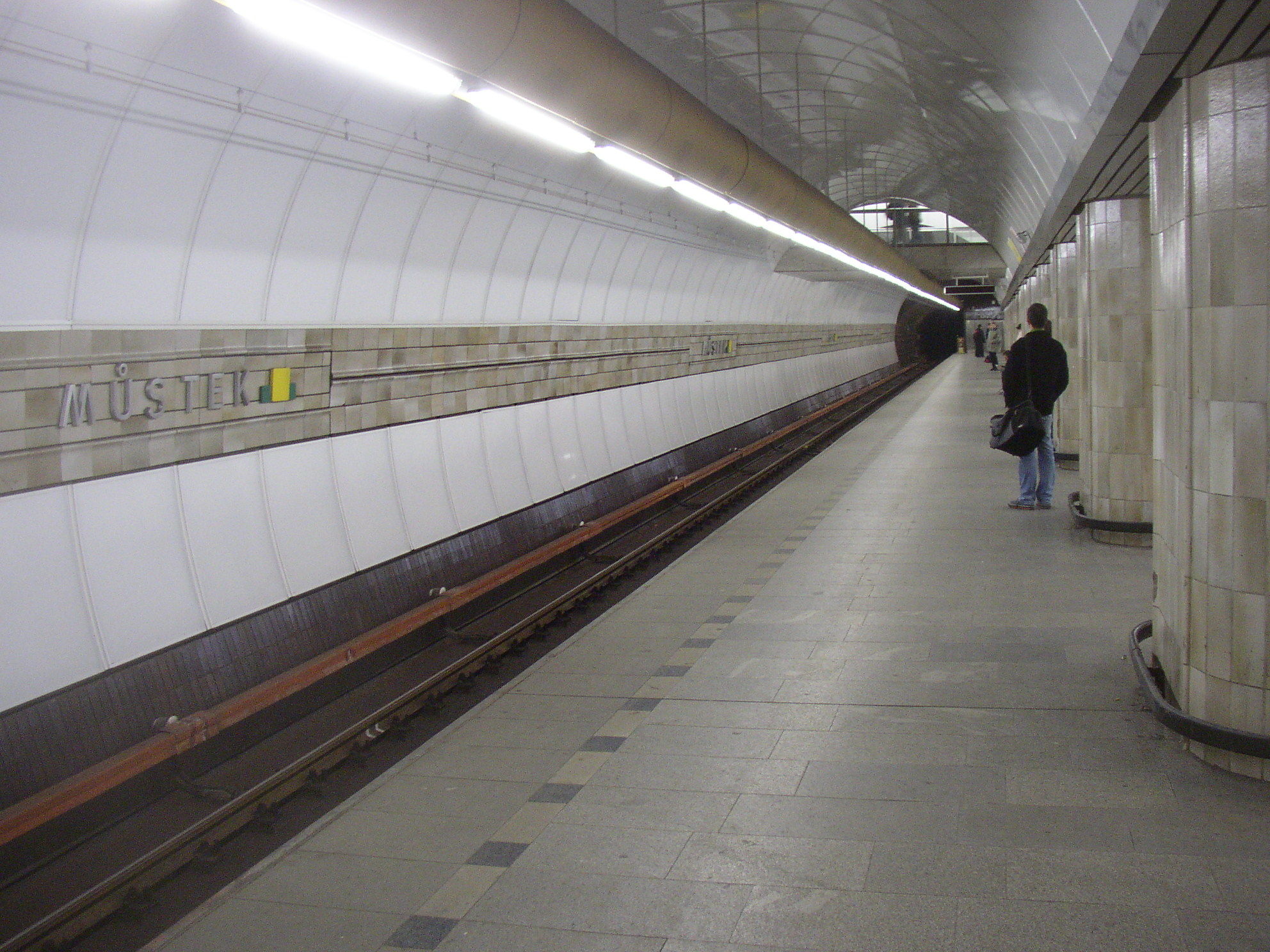 Můstek station of Line B of Prague Metro. Eastbound platform.